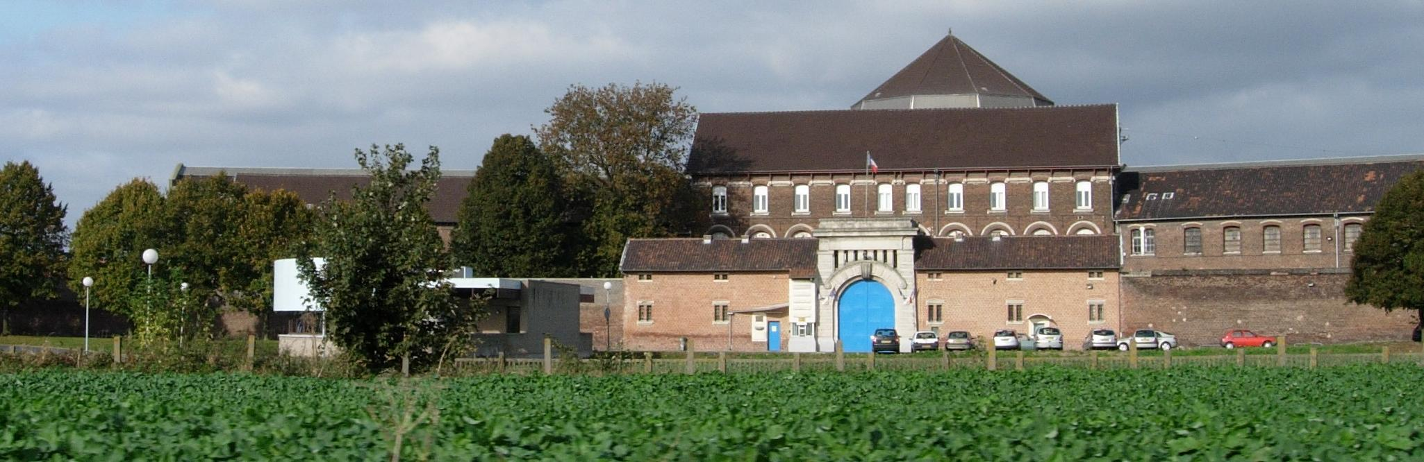 Loos prison, former abbey